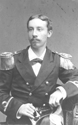 The head of the Torpedo Department at the Royal Swedish Naval Materiel Administration, Baron and Commander Per Johan Dahlgren (1858-1945), here as subaltern.